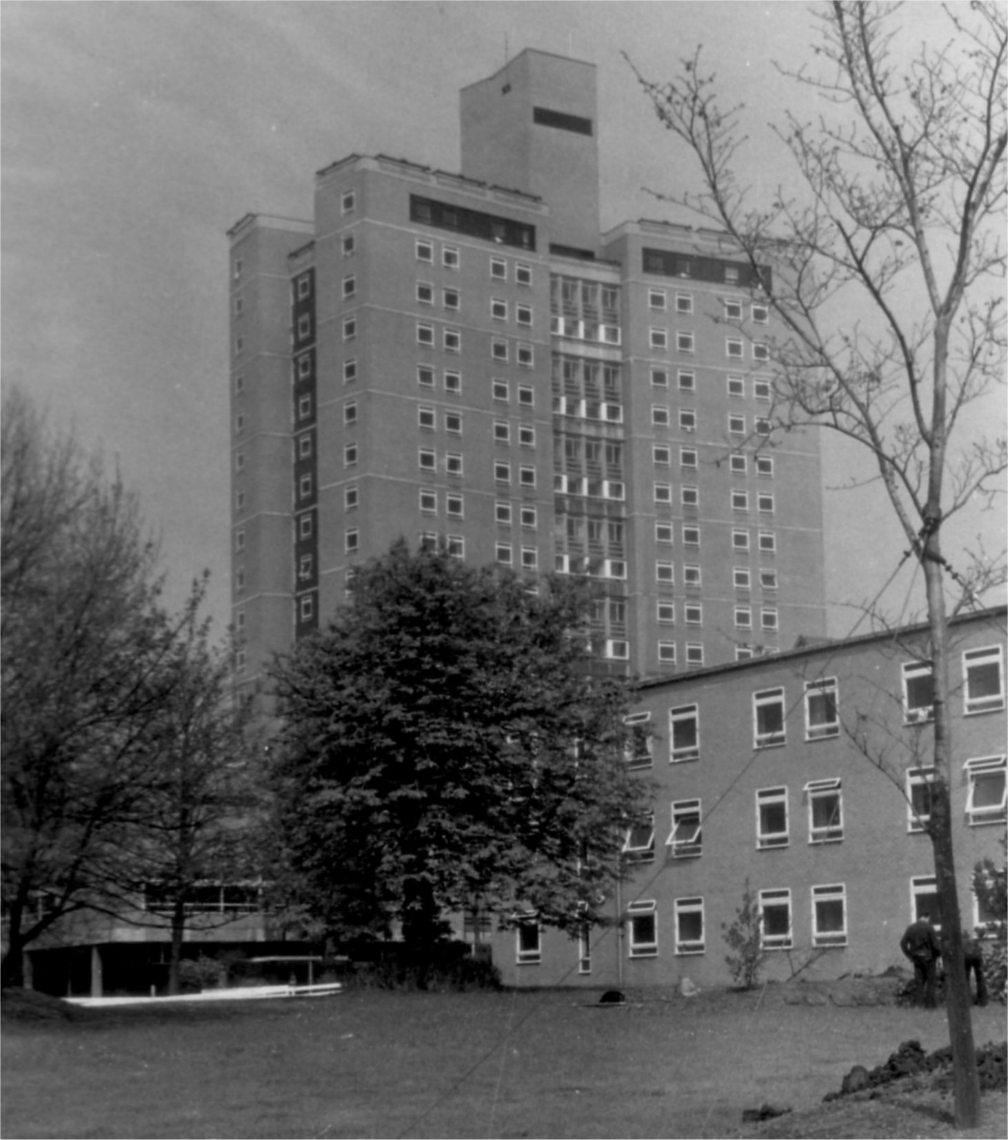 The ten year-old tower of Owens Park, Fallowfield, Manchester, England, in 1975. Student accommodation. Oosoom